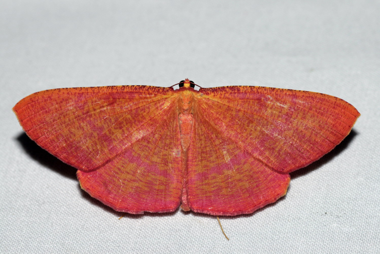 Borneo, Crocker Range National Park April, 2009